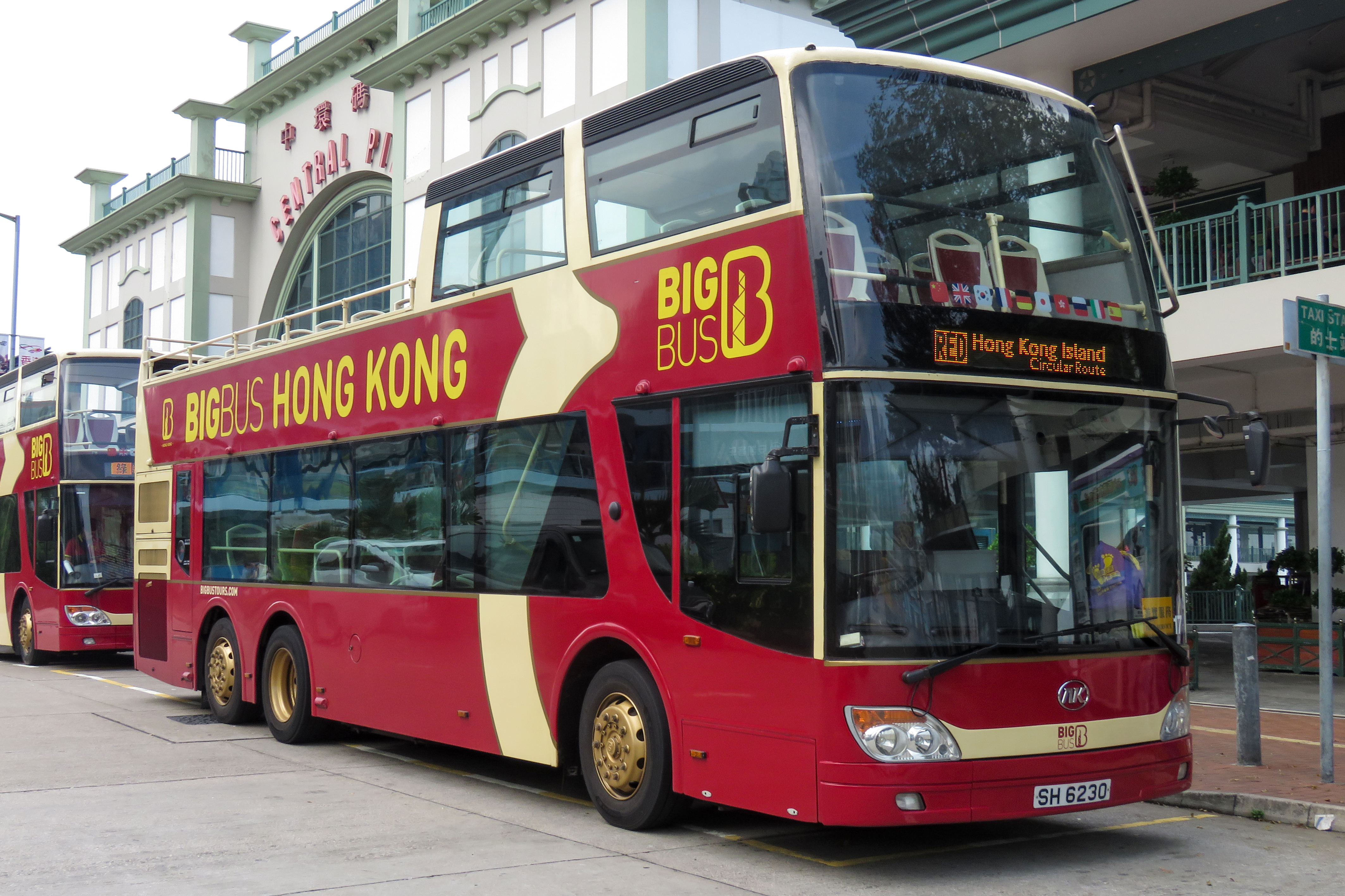 Red Line, a Hong Kong Island circular route.